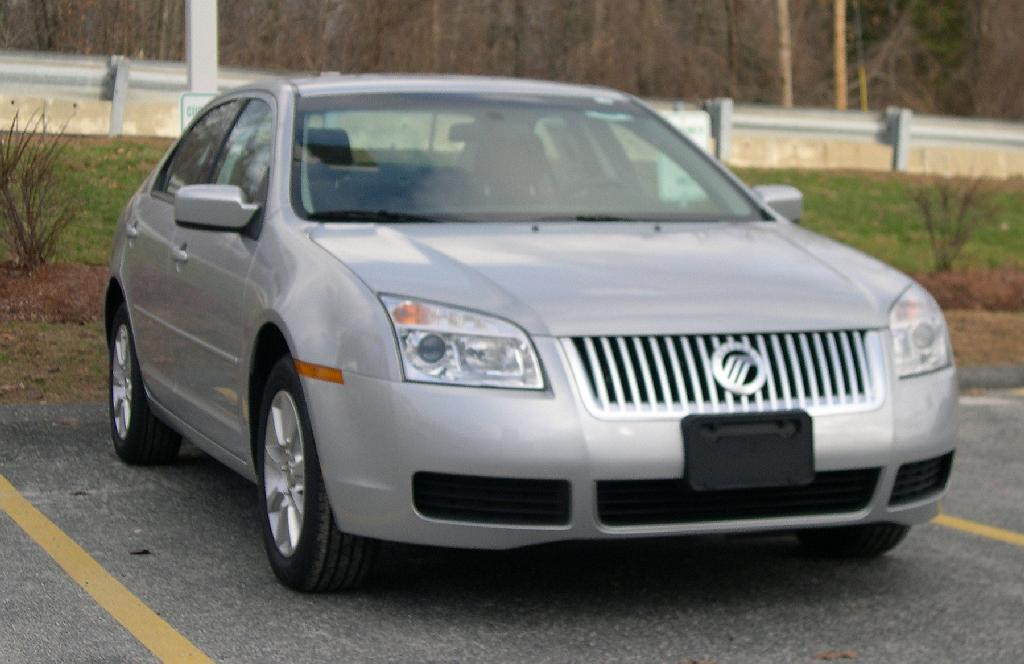 2005 Mercury Milan